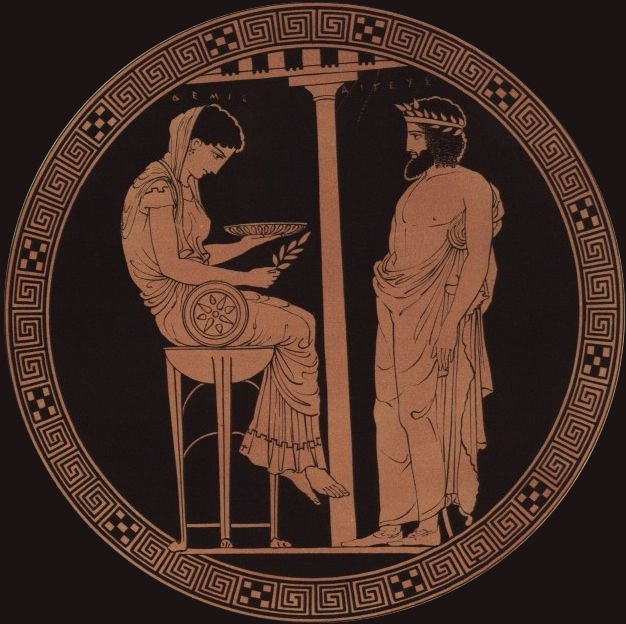 Themis and Aegeus. Attic red-figure kylix, 440–430 BC. From Vulci.